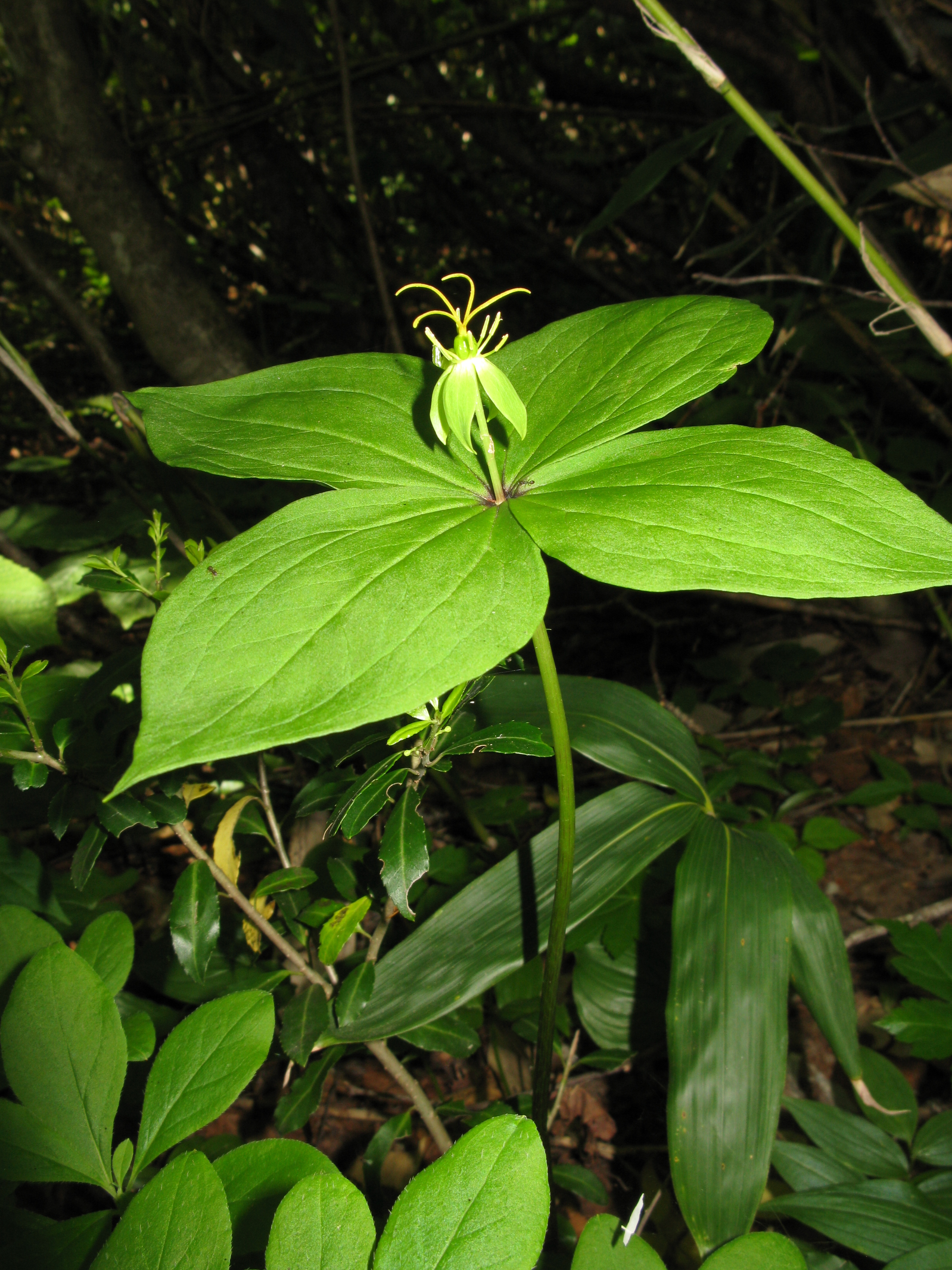 Paris tetraphylla, Mount Nishiazuma, Yamagata pref., Japan